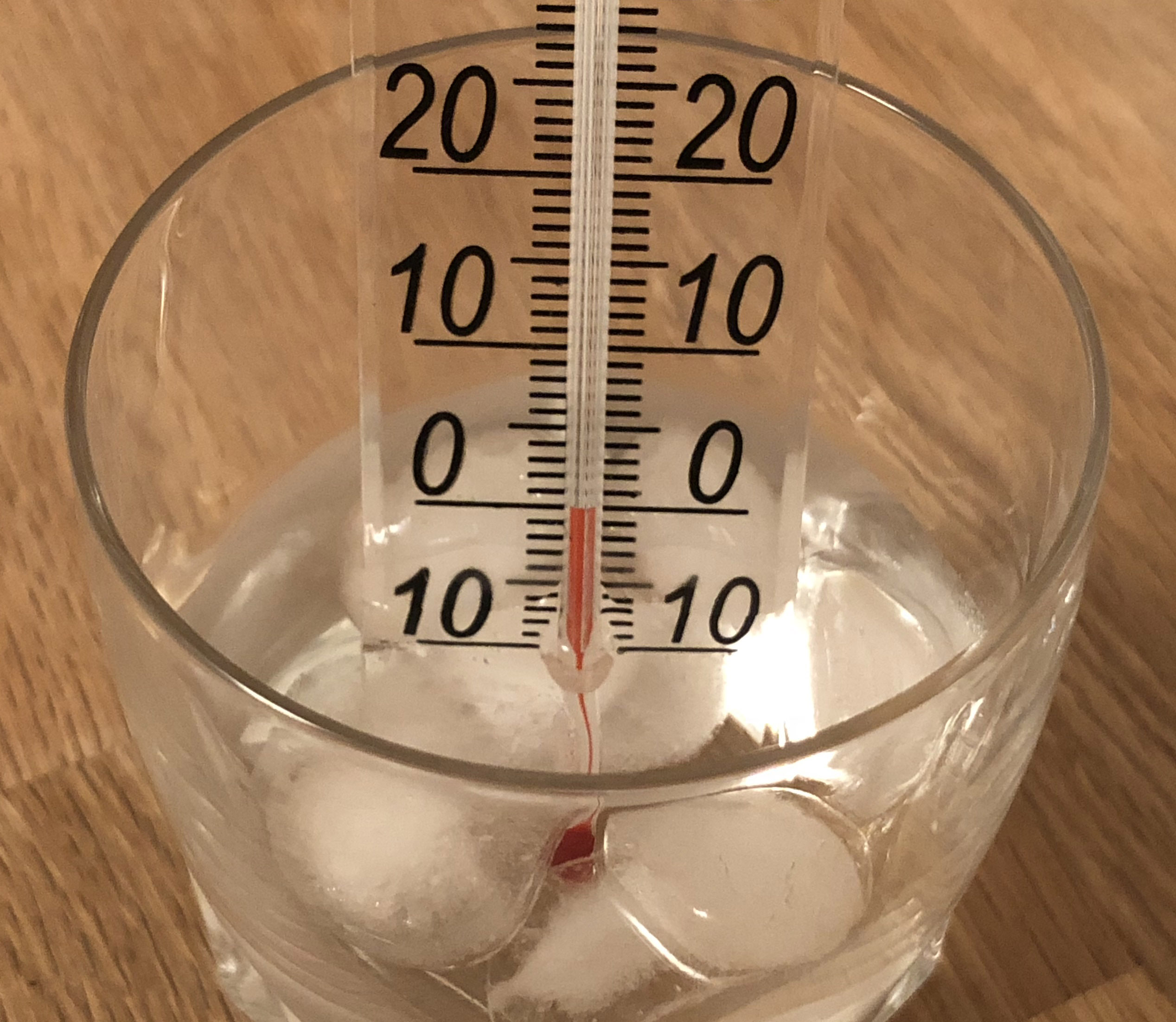 A thermometer put into a glass of ice and water showing that the temperature is 0 °C.